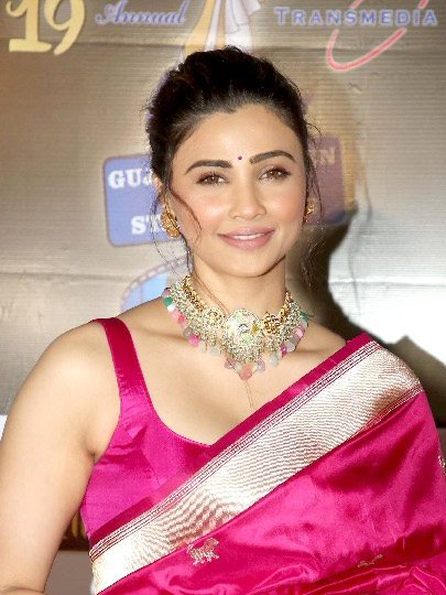 Daisy Shah, 19th Transmedia Gujarati Screen and Stage Awards 2020